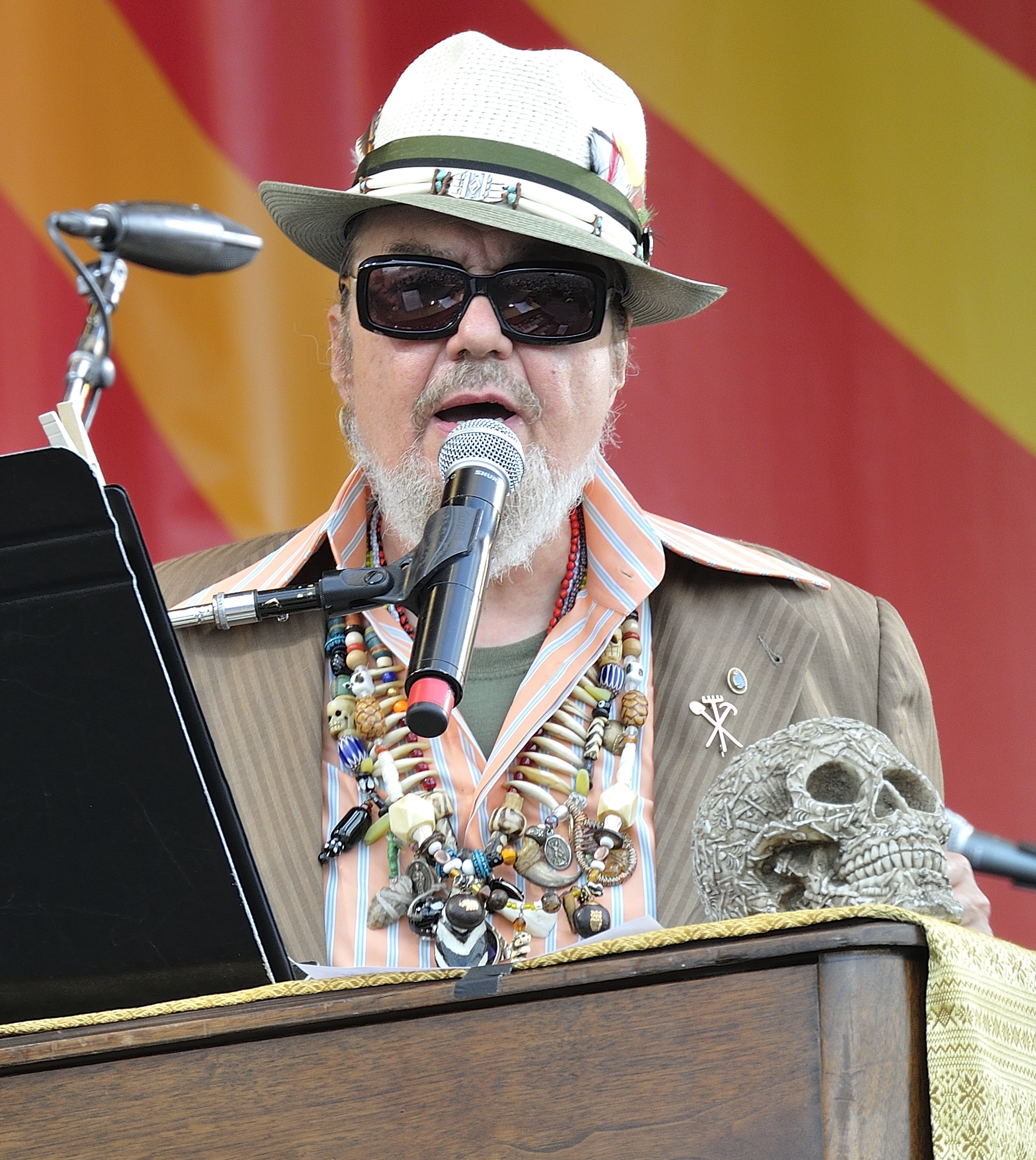 Dr. John & The Lower 911 - New Orleans Jazz & Heritage Festival 2012